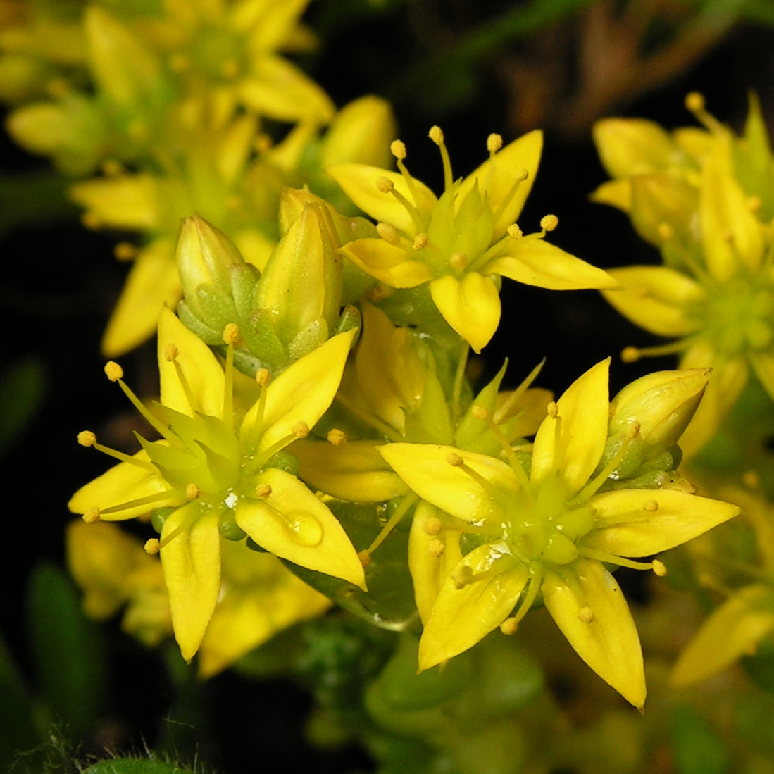 The flowers and the buds of Sedum acre. Moscow region, Russia.